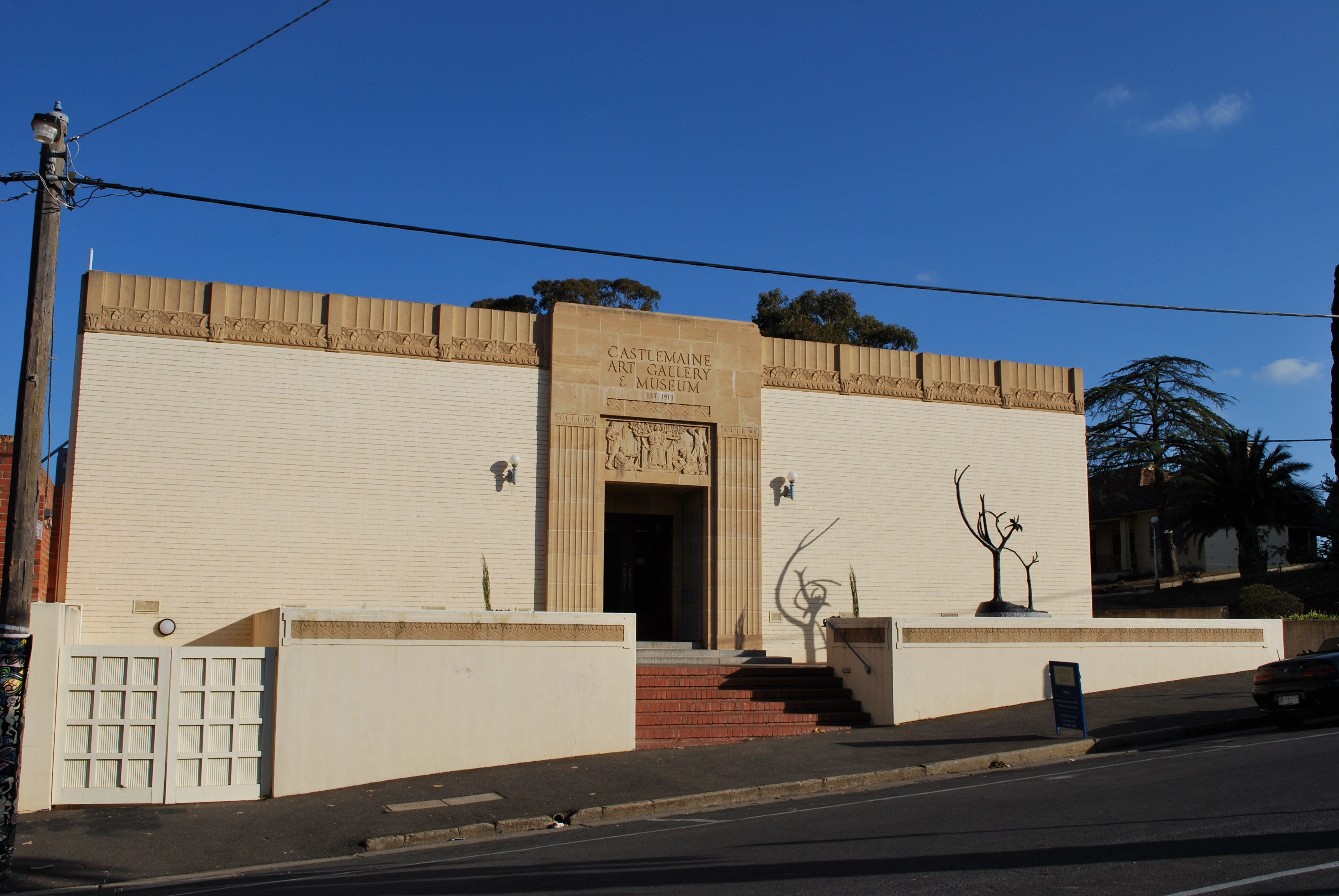 Art gallery and museum at Castlemaine, Victoria